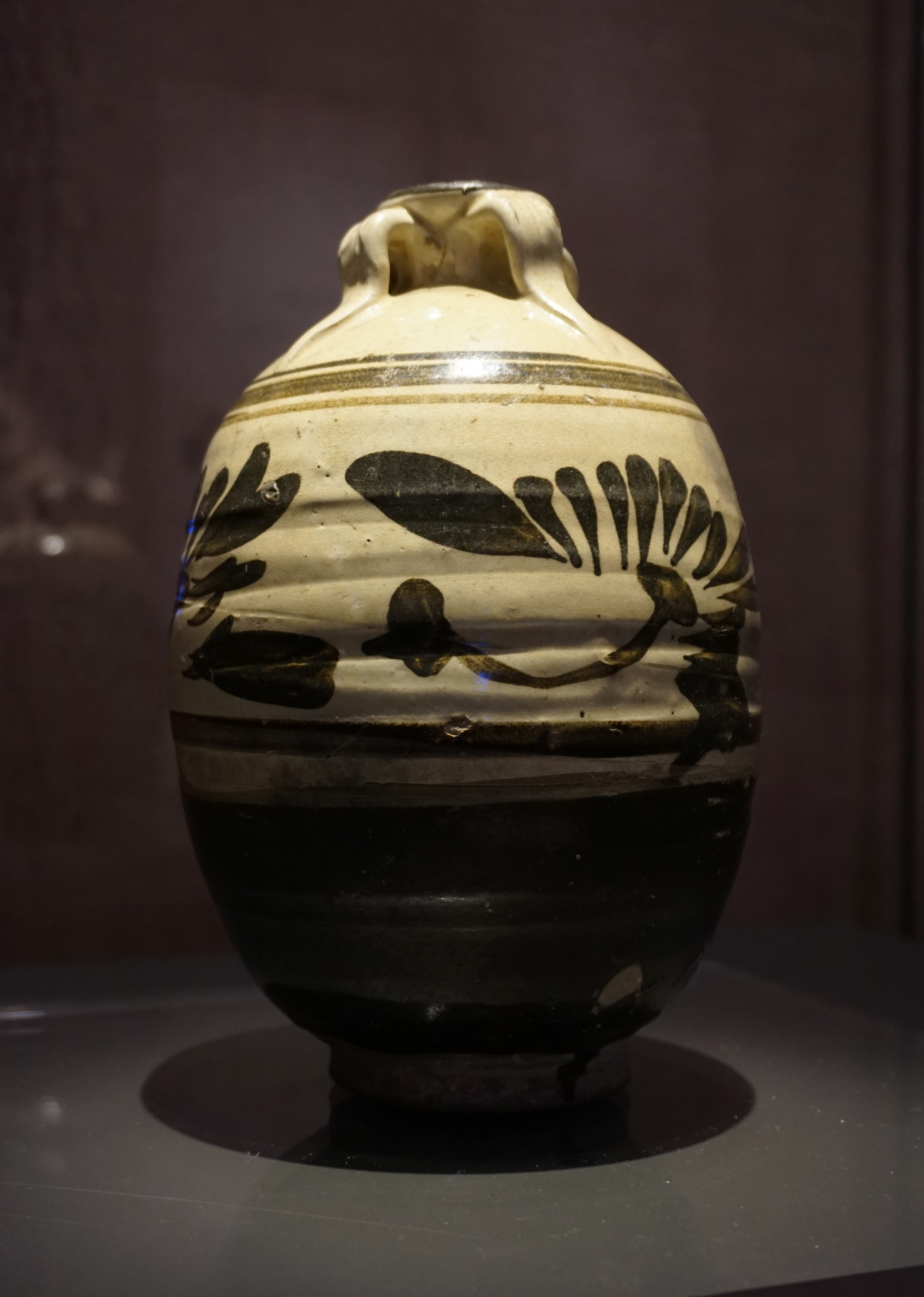 Black-flower white-glazed four-season vase.